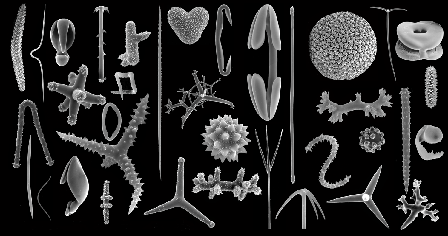 Scanning electron micrograph images of a selection of microscleres and megascleres of demosponges, not to scale, sizes vary between 0.01 and 1 mm.